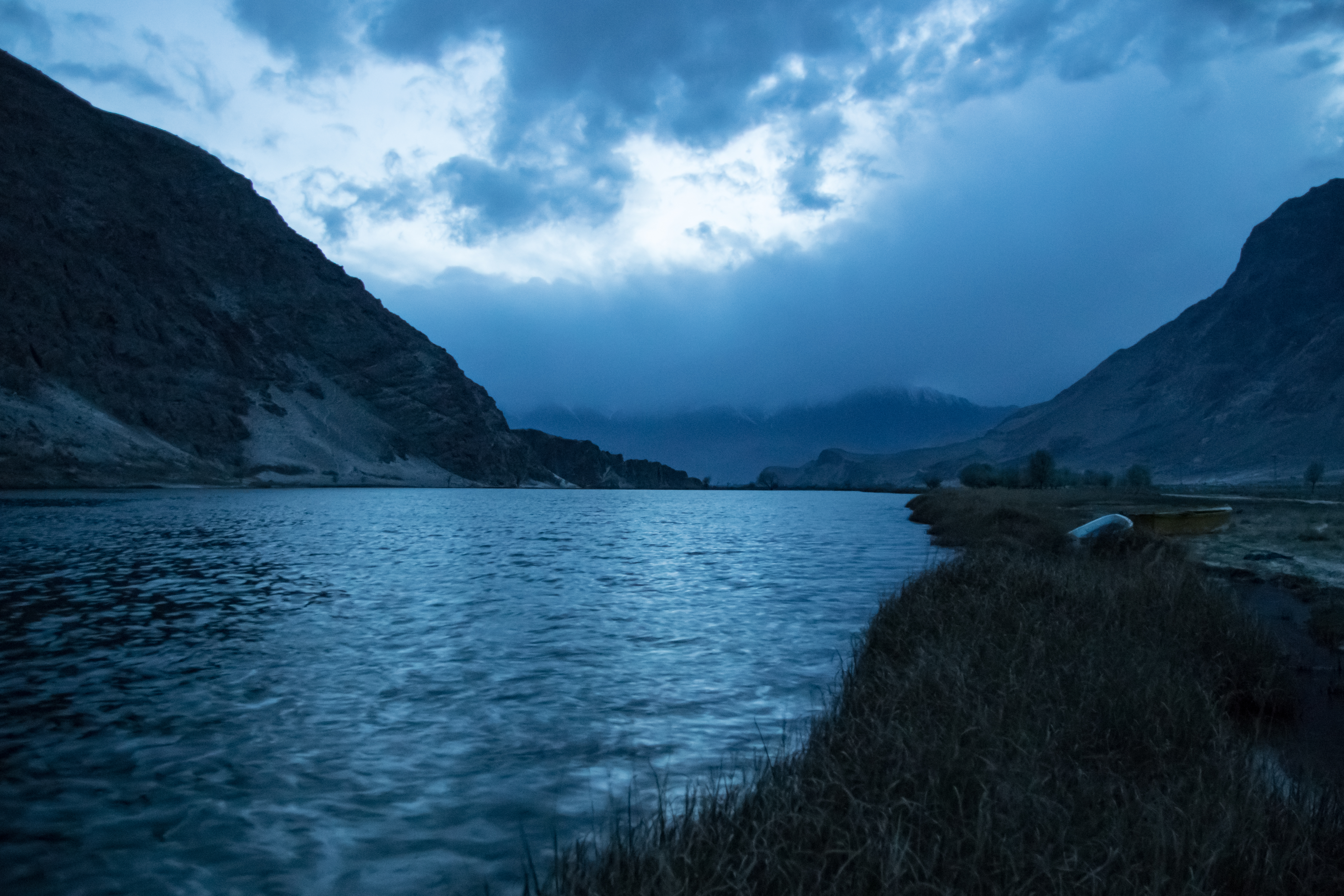 Zharba Lake (aka Blind Lake) in Skardu photographed at night